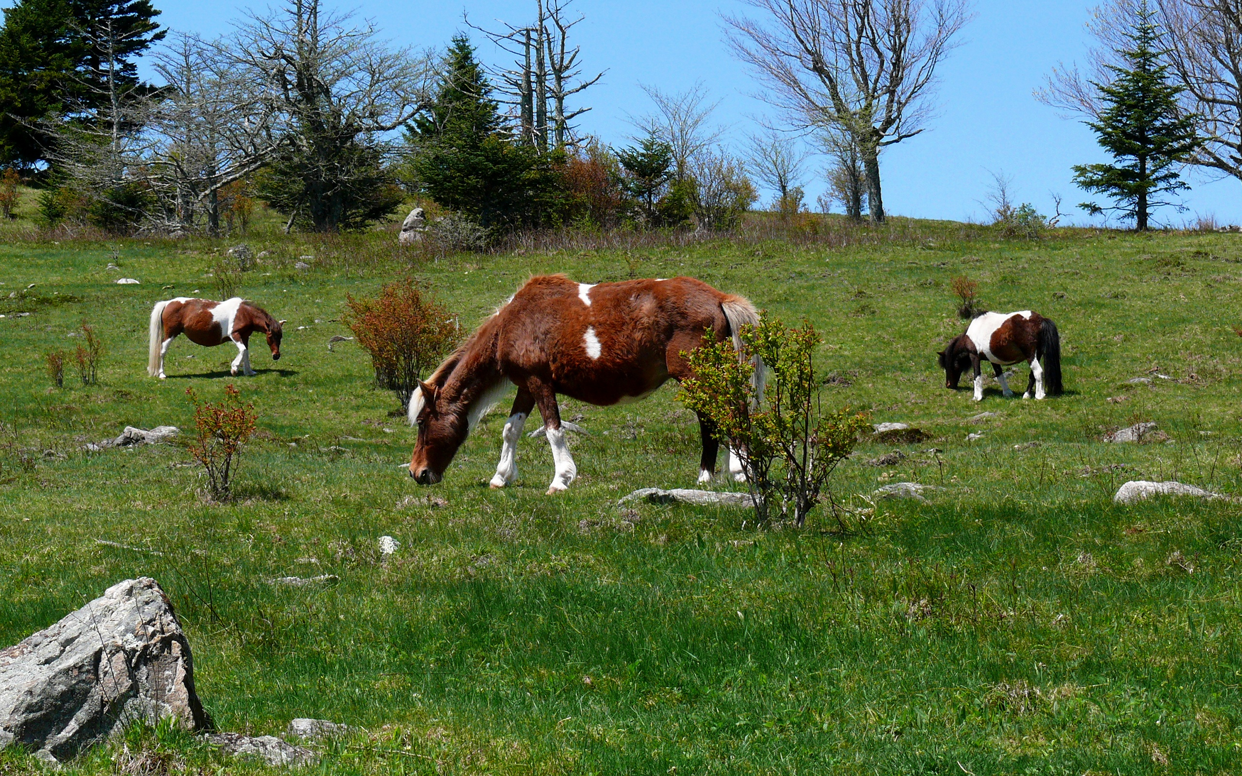 Three ponies feed in the grass. These are members of an introduced herd of wild ponies that has lived on the balds of Wilburn Ridge in Grayson Highlands State Park for over 50 years. Photo taken with a Panasonic Lumix DMC-FZ50 in Grayson County, VA, USA. Cropping and post-processing performed with The GIMP.